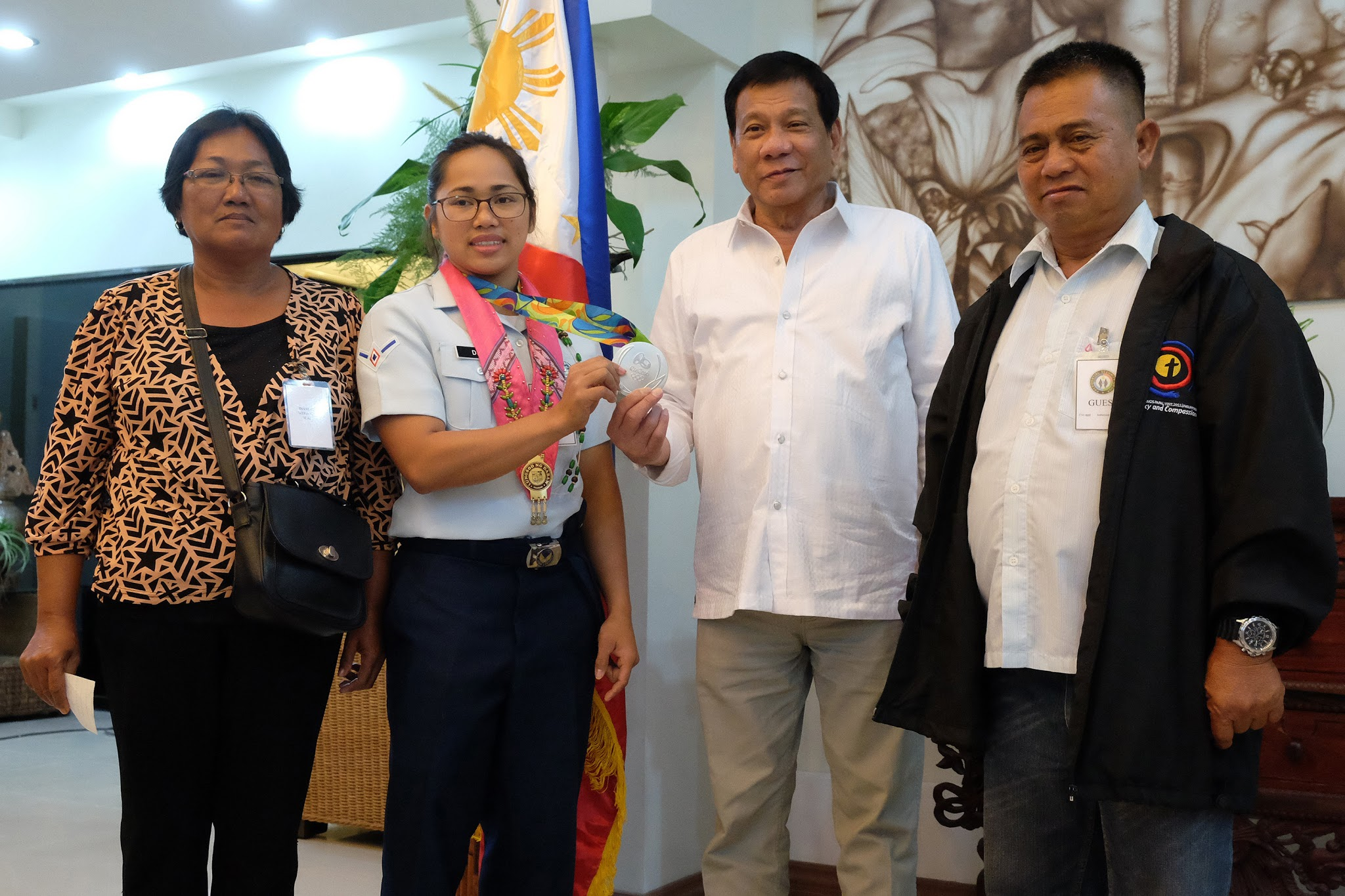 President Rodrigo Duterte poses with the first Filipina and Mindanaoan Olympic silver medalist Hidilyn Diaz and her parents Eduardo and Emelita at the Presidential Guest House in Panacan, Davao City on August 11.